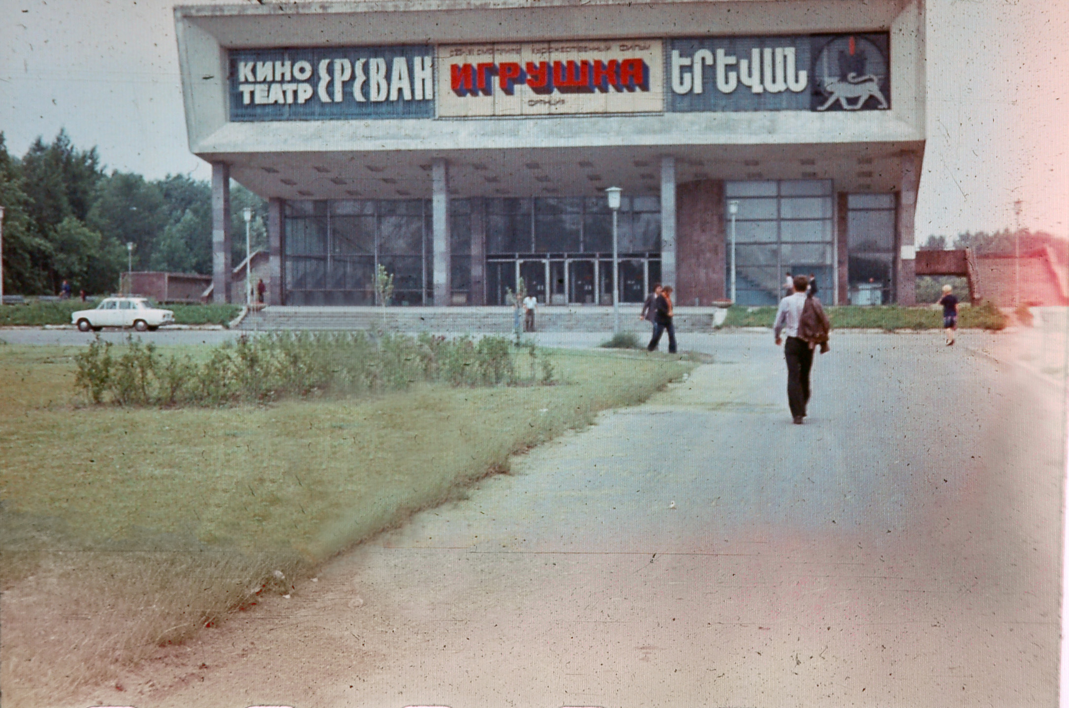 1977 - Premiere of the movie The toy with P. Rishar in Moscow, USSR.